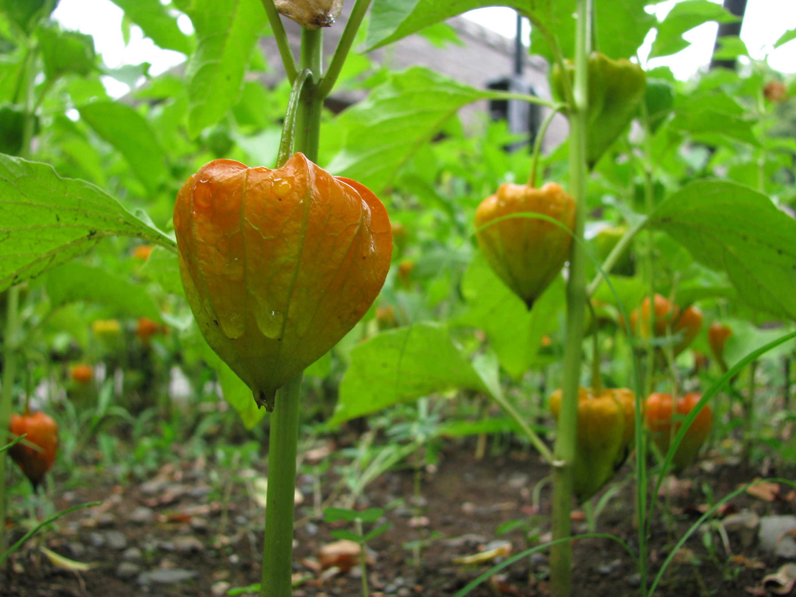 Hōzuki